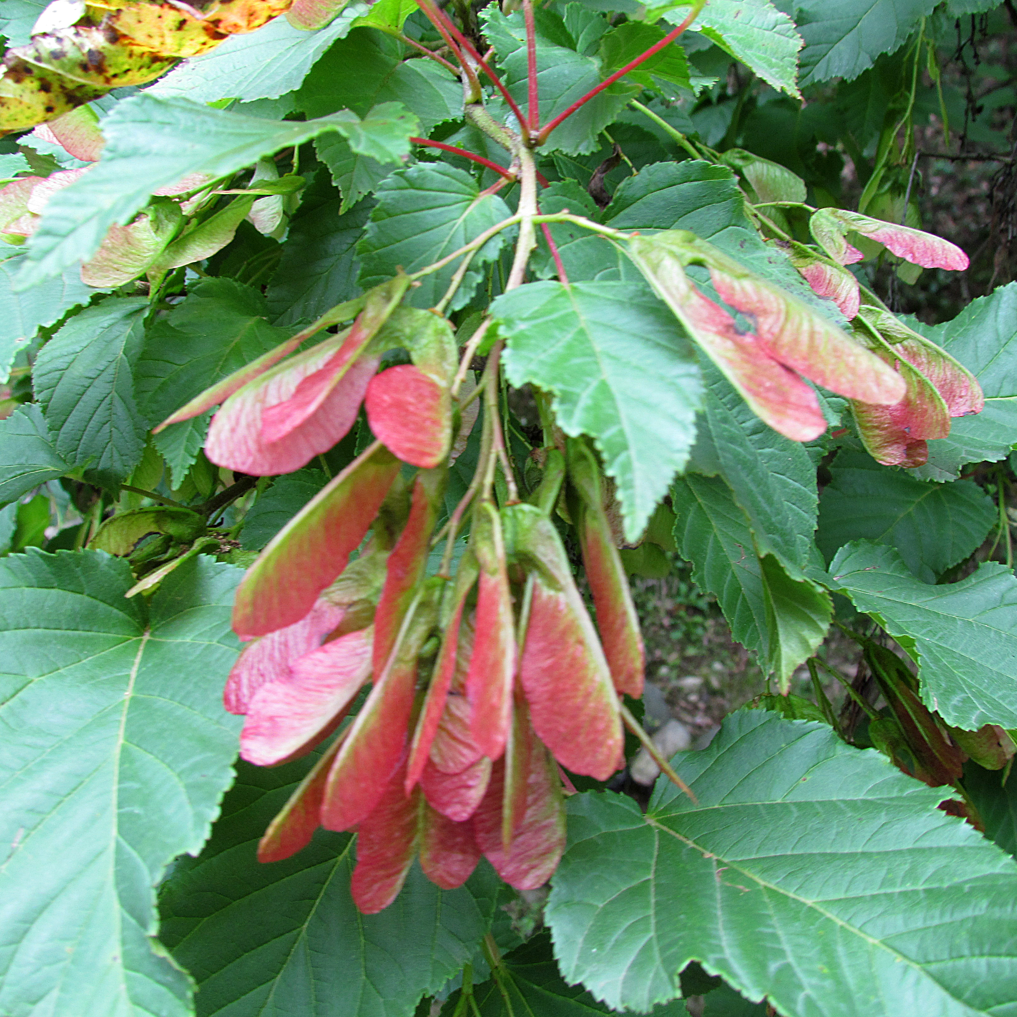 Acer tataricum fruits